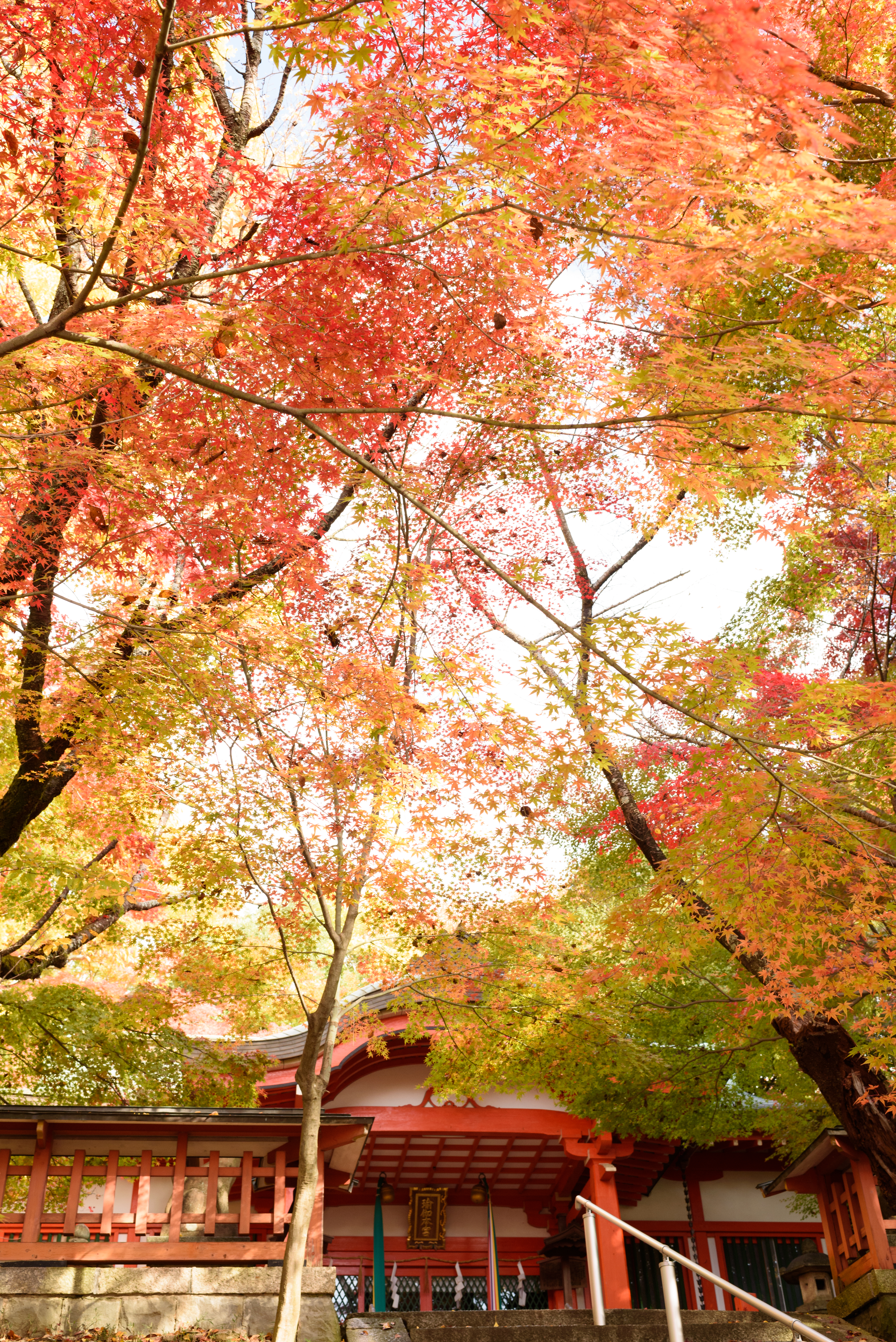 Yuga Shrine, in Takabatake, Nara, Nara Prefecture, Japan